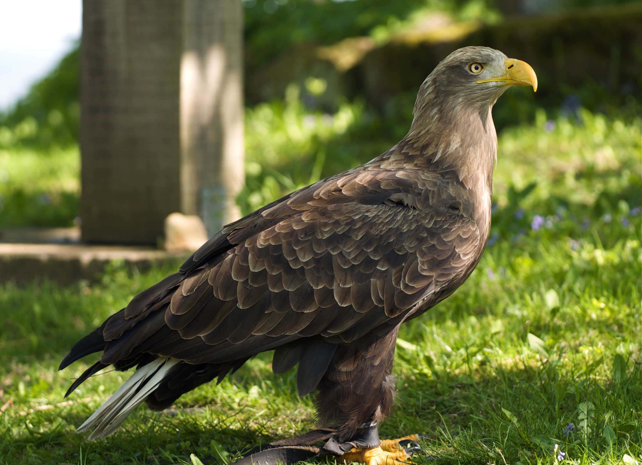 White-tailed eagle (Haliaeetus albicilla) on a bird show on the castle Augustusburg, Germany